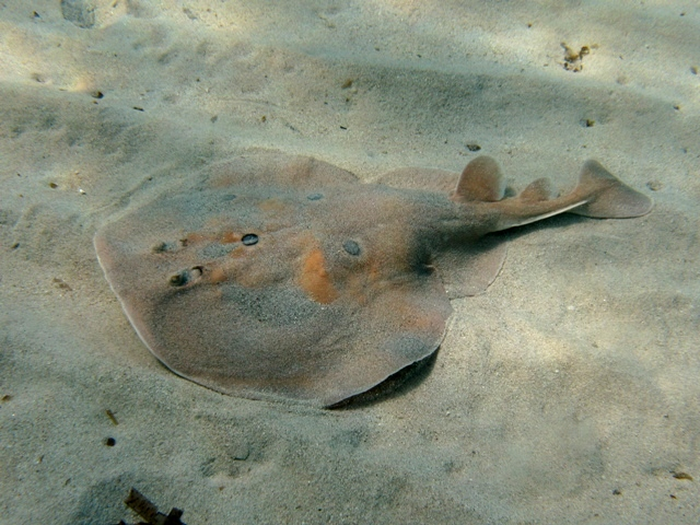 Common torpedo (Torpedo torpedo) off Corsica, France